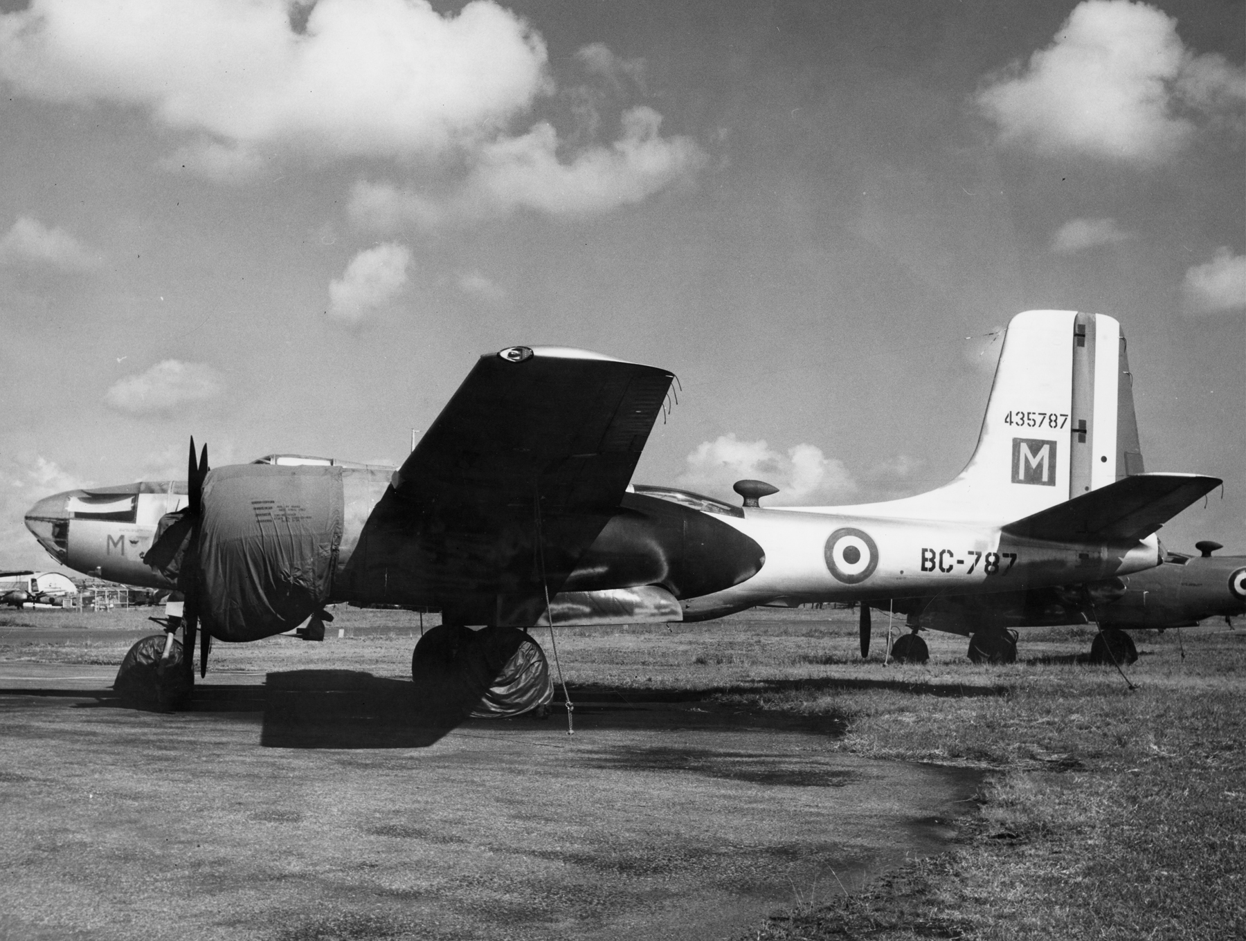 A U.S. Air Force Douglas A-26C-50-DT Invader (s/n 44-35787) loaned to France during the Indochina War. This aircraft was loaned to France from March 1952 to November 1955. From 1950-1954, the USAF loaned transport and attack aircraft to the French and also sent about 200 aircraft mechanics to help maintain them.